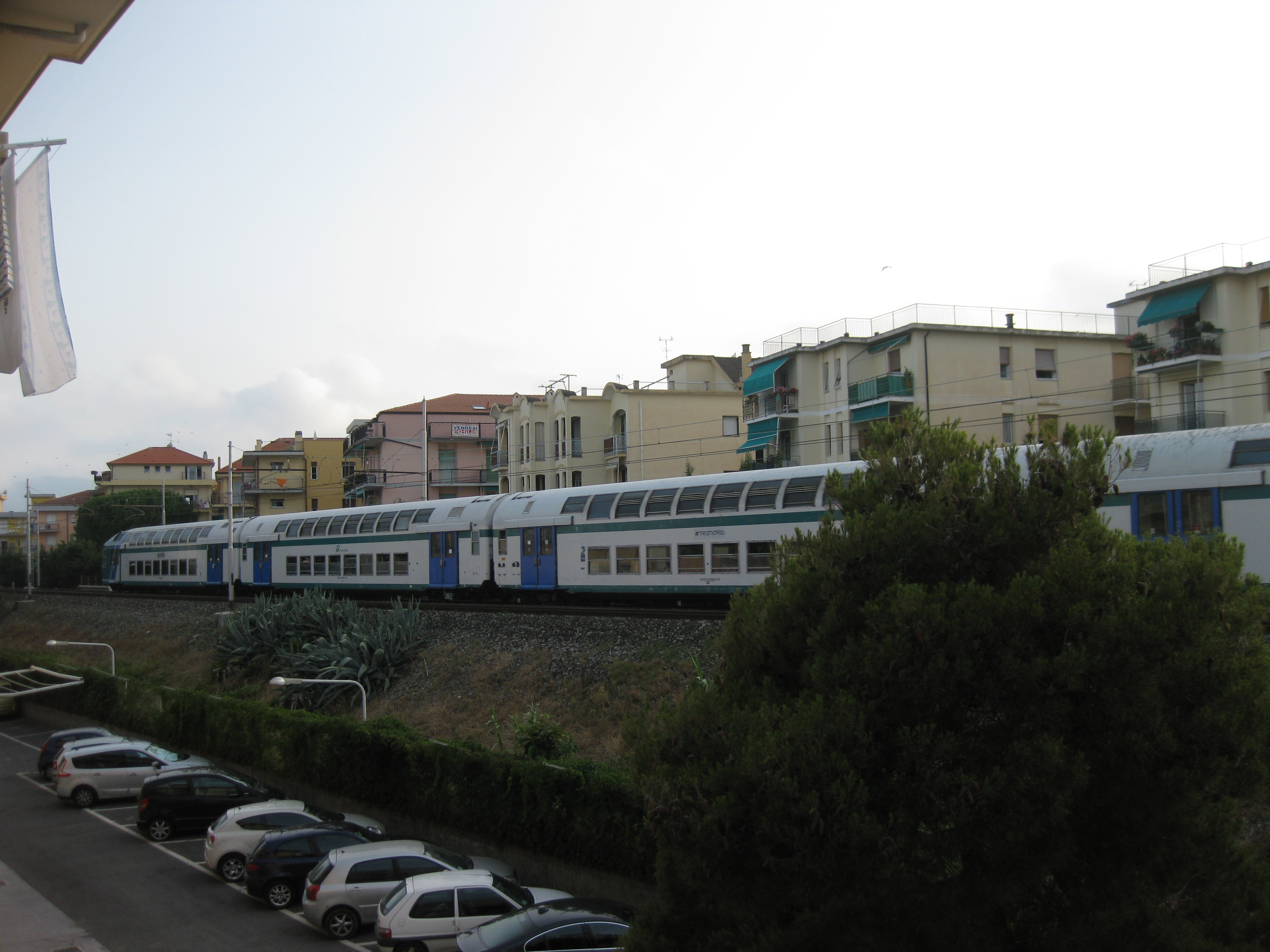 Railway Road in Ceriale ITALY